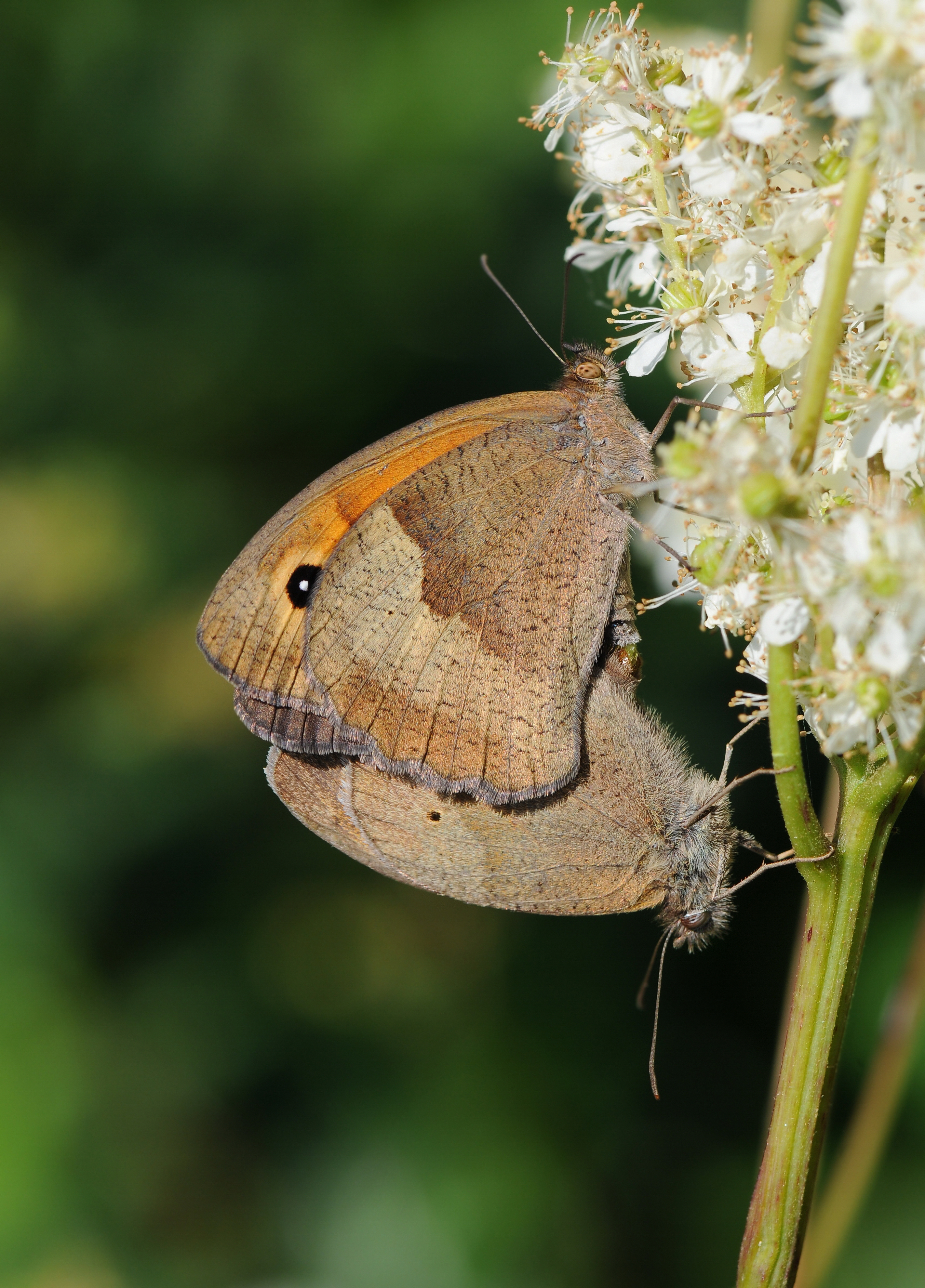 The Meadow Brown, Maniola jurtina, is a butterfly found in European meadows, where its larvae feed on grasses, such as Sheep's Fescue. Widdermoos seen in the municipality of Sennwald in the Rhine Valley (Alpine Rhine).